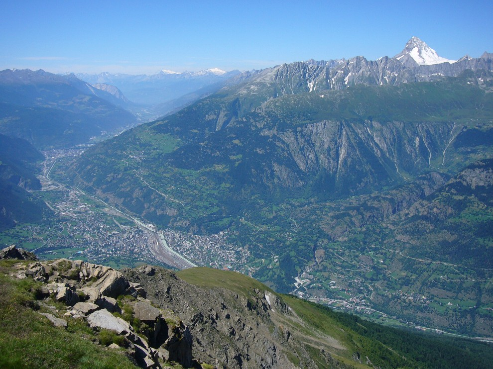 Brig lies in the main valley of the Rhone river running to the west while Bietschhorn stands out as the main peak. Taken from Fuelhorn, east of Brig.